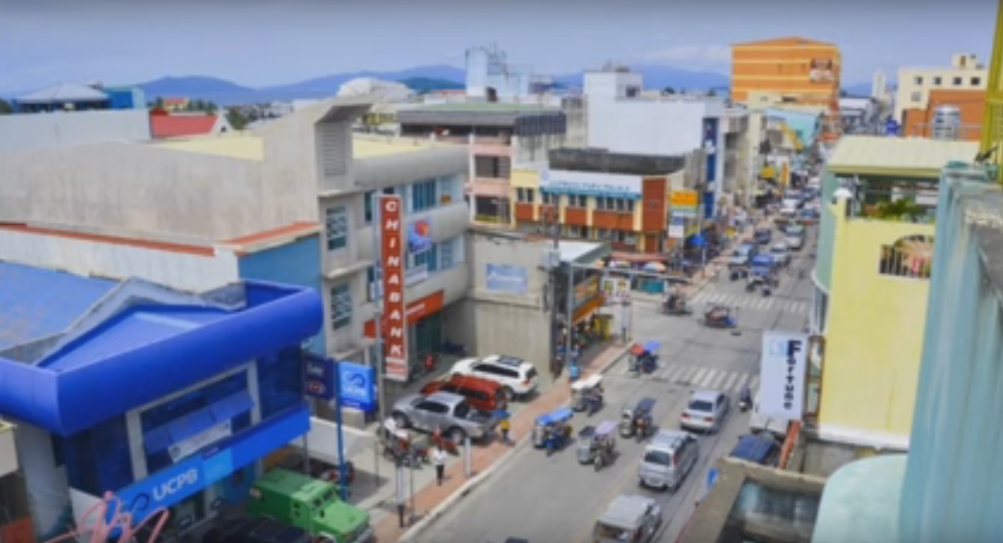 View of Calapan City